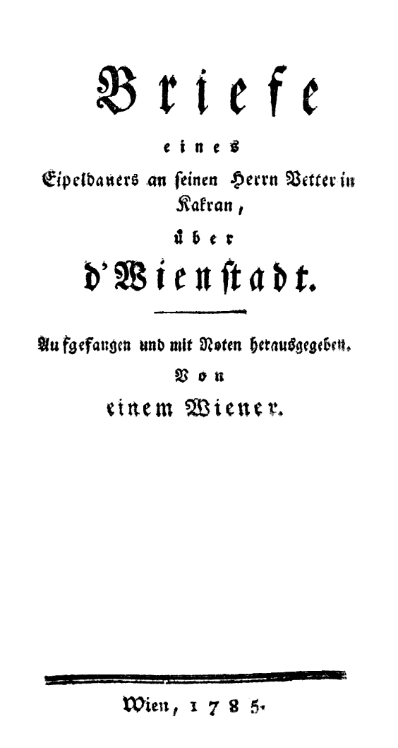 Title sheet of: 'Letters by someone from Eipeldau village, sent to his cousin, about the City of Vienna; collected and commented by some Viennese person'. [raw translation]